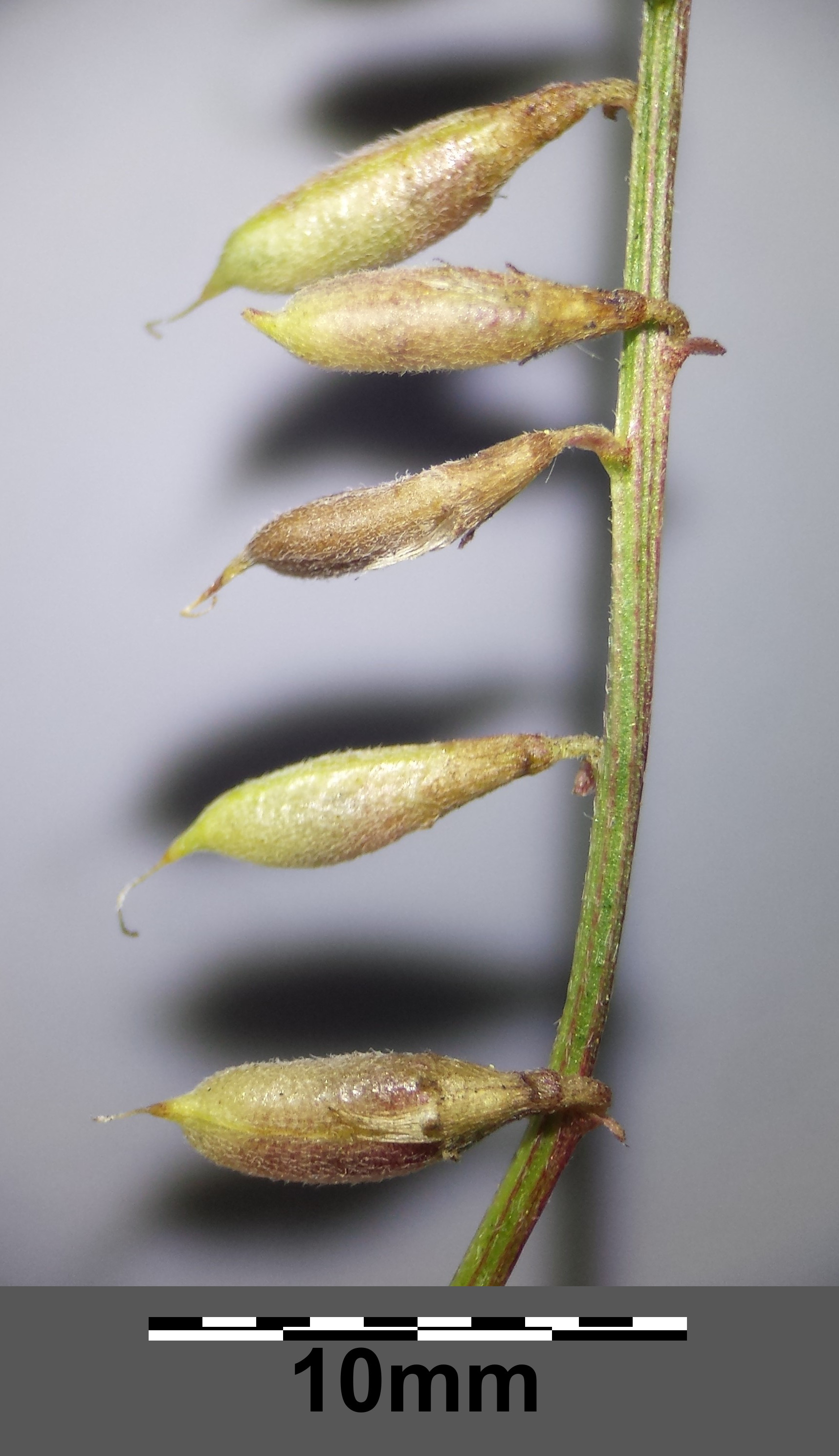 Infructescence Taxonym: Astragalus austriacus ss Fischer et al. EfÖLS 2008 ISBN 978-3-85474-187-9 Location: Kalvarienberg southwest of Pillichsdorf, district Mistelbach, Lower Austria - ca. 173 m a.s.l. Habitat: semi-dry grassland